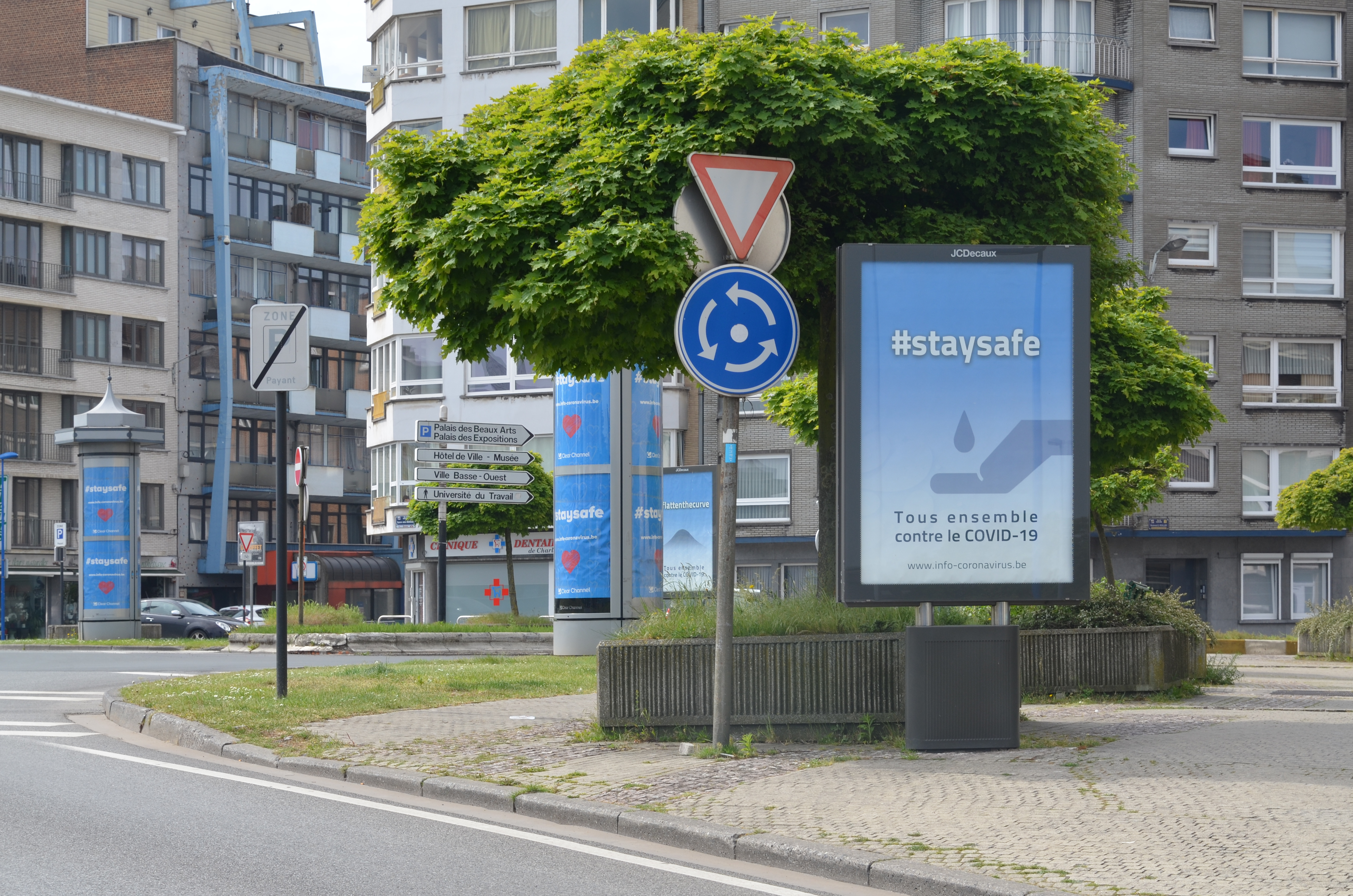 Square Jules Hiernaux in Charleroi (Belgium) during the COVID-19 pandemic. All billboards carry the official poster campaign: "All together against COVID-19".